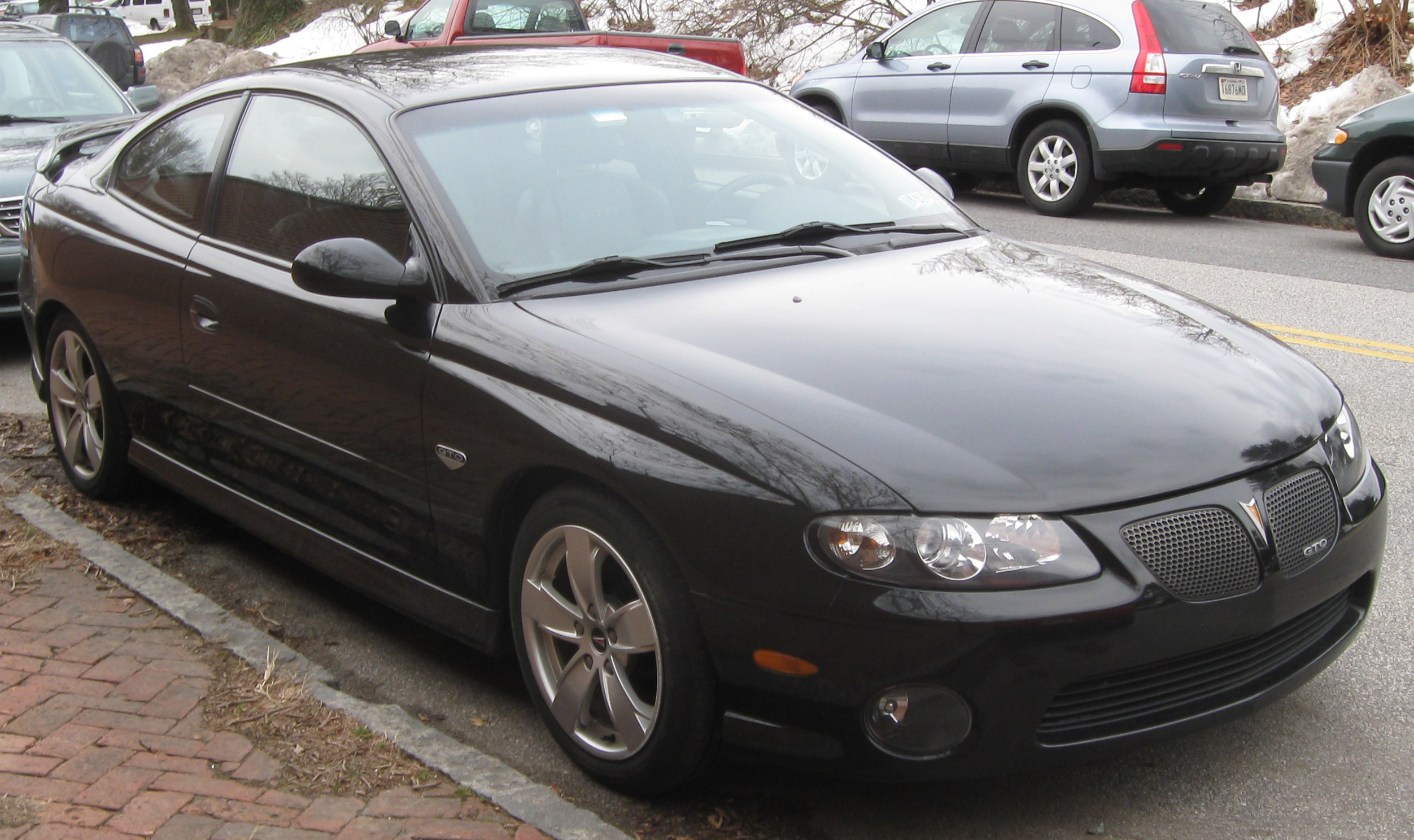 2004 Pontiac GTO photographed in Annapolis, Maryland, USA.